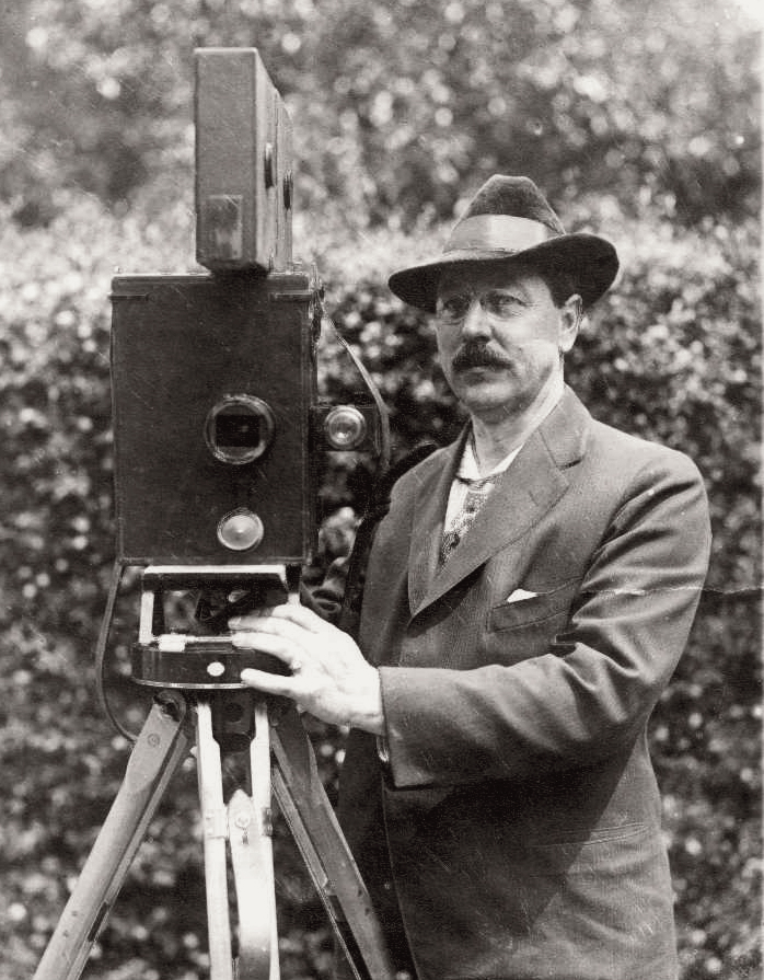 Inventor and entrepreneur Leon Forrest Douglass, around 1915.